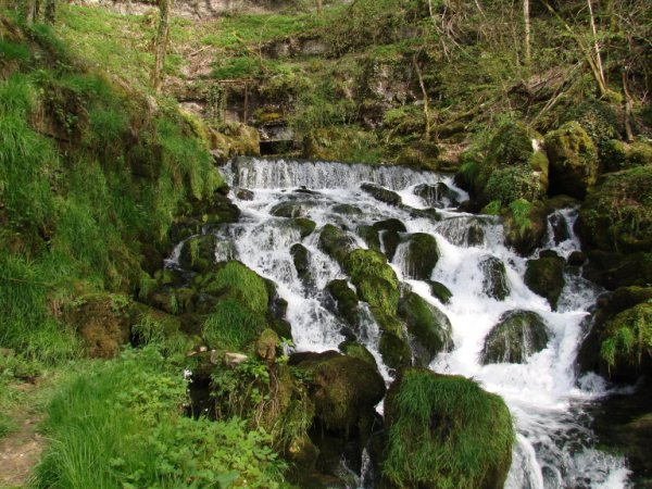 Spring of Doue: One of the karst springs of river Gland in the french Jura, tributary to river Doubs